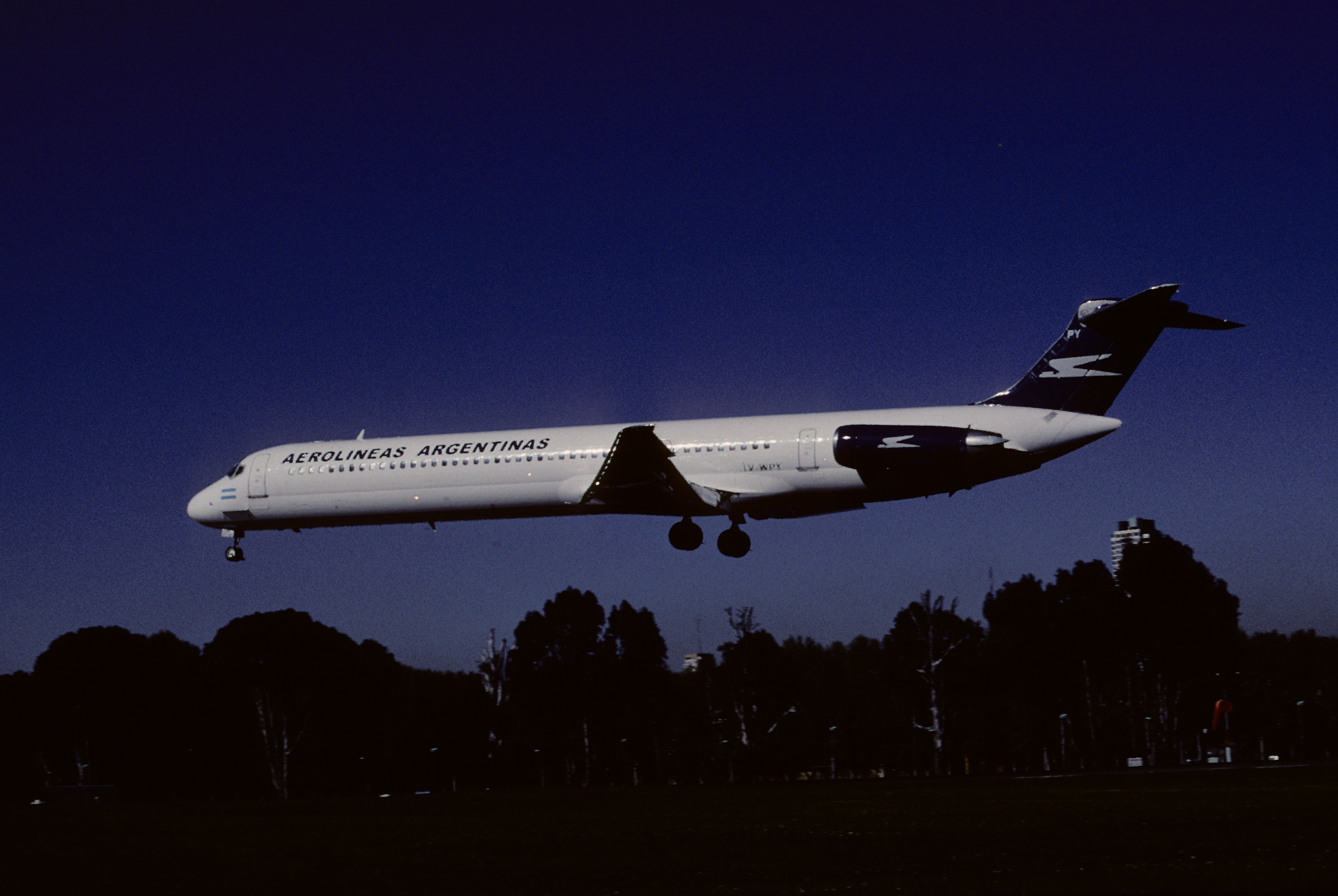 First flight: August 15, 1980 (c/n 48024/ 948) 08/01/1981 Austral N1002201/12/1996 Austral LV-WPY wfu 16/01/07 - scrapped 04/2008